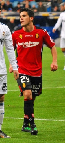 Spanish football player Kevin García Martínez while playing for RCD Mallorca